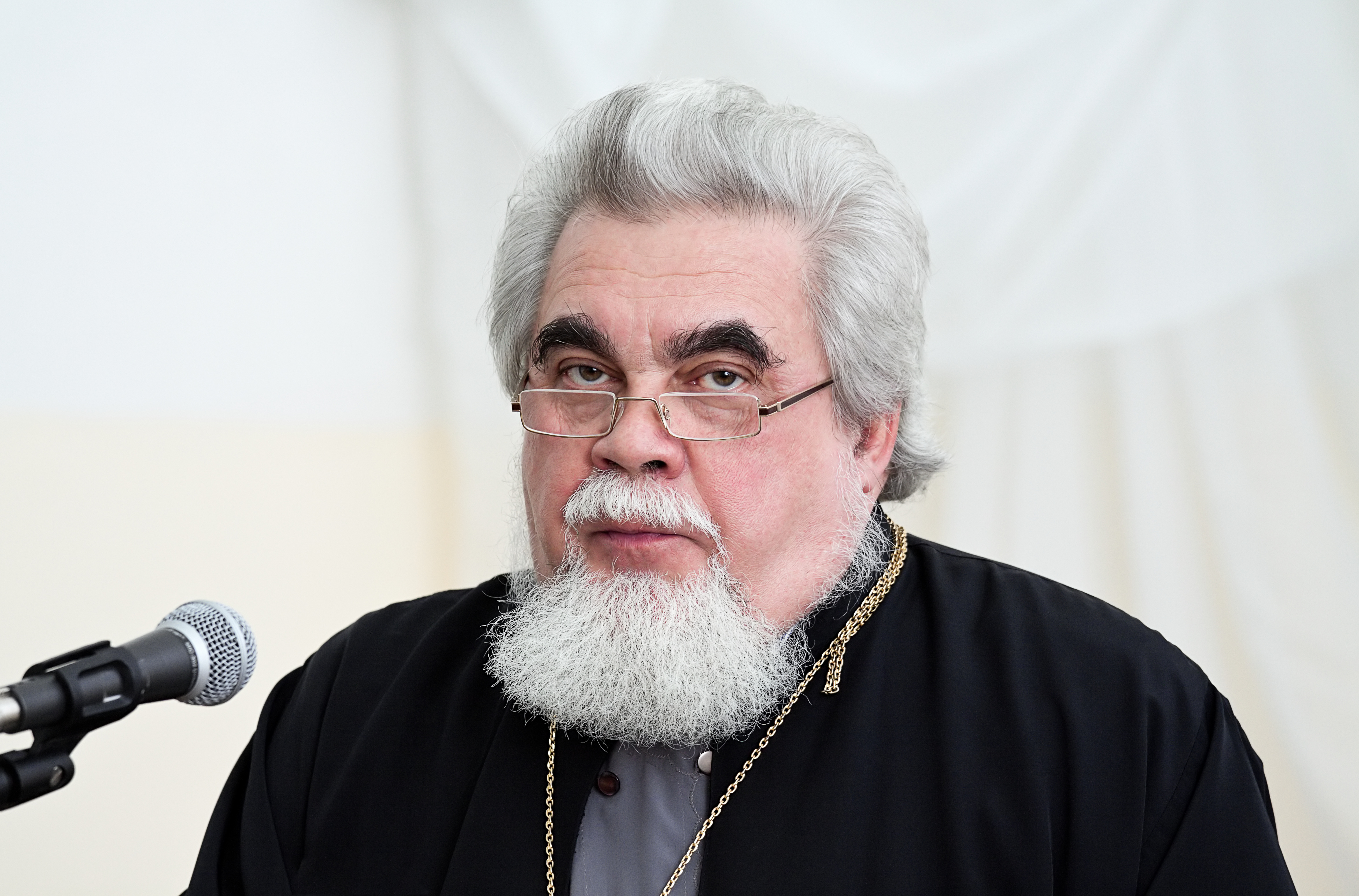 Nikolai Sokolov — Ph. D. in Theology (1983), archpriest (1990), rector of the church of St. Nicholas in Tolmachi (1992), Professor (2007), Dean of the Faculty of missionary in St. Tikhon's orthodox university for the humanities, a member of the Inter-Council Presence of Russian Orthodox Church (2009).